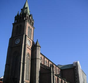 Myeongdong Cathedral. Taken November 2004 by Gleam in Seoul, South Korea.